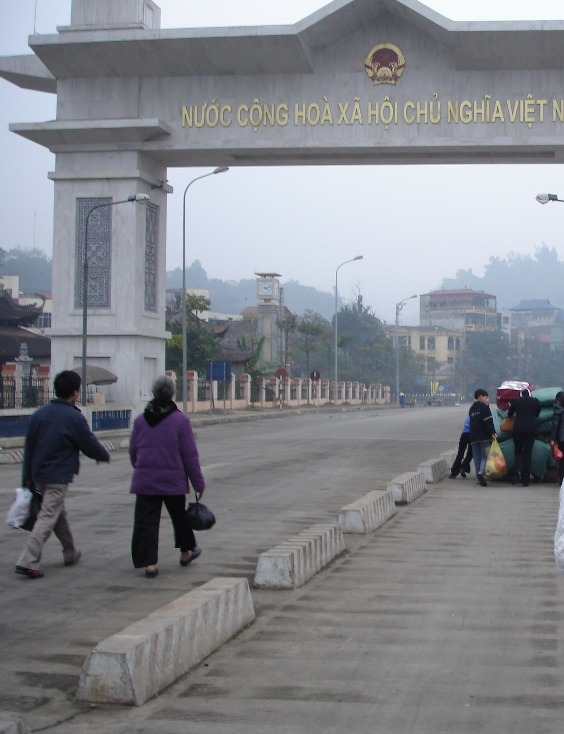 Vietnam's entry arch at Lao Cai border crossing